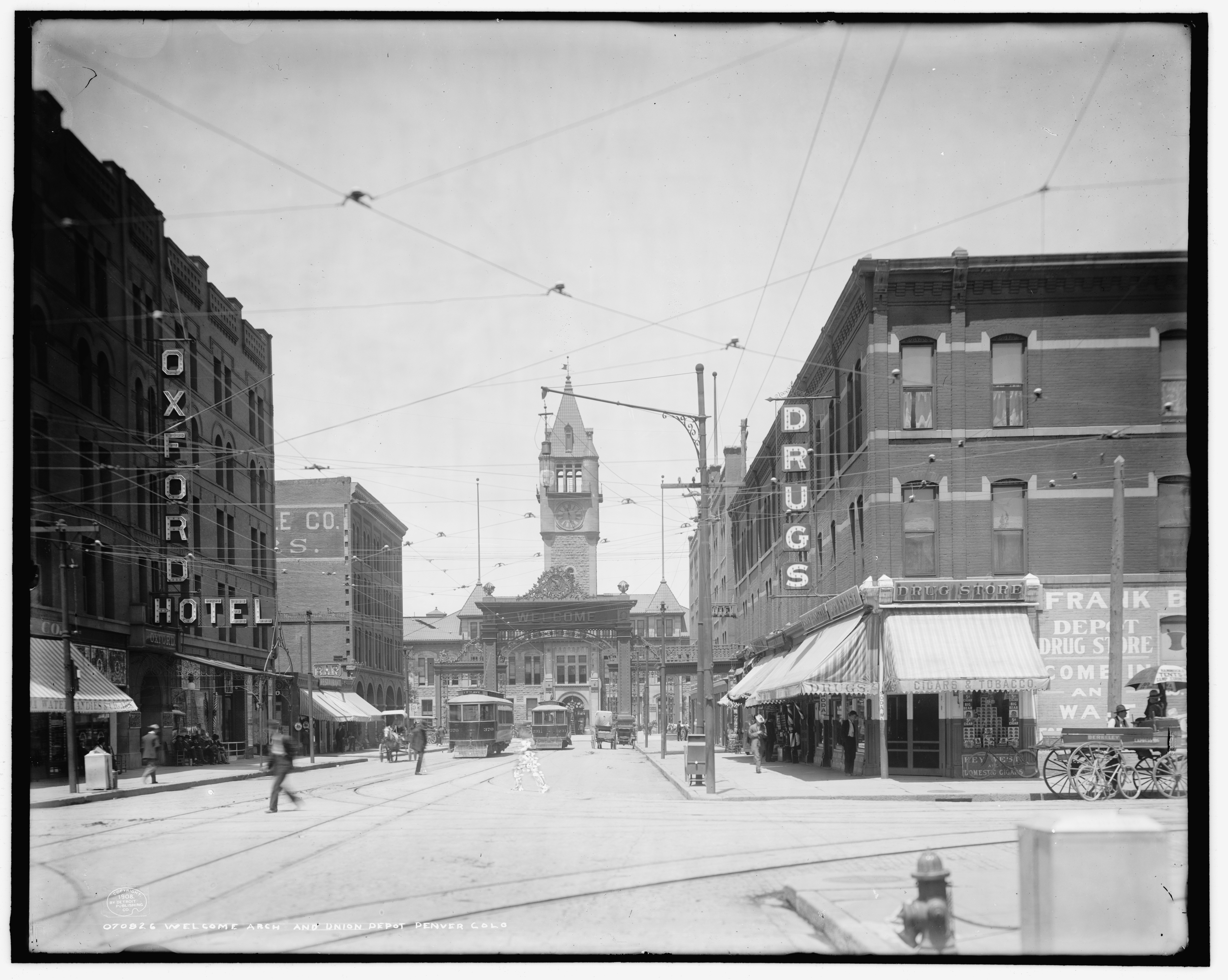 Welcome arch and Union Depot, Denver, Colo.